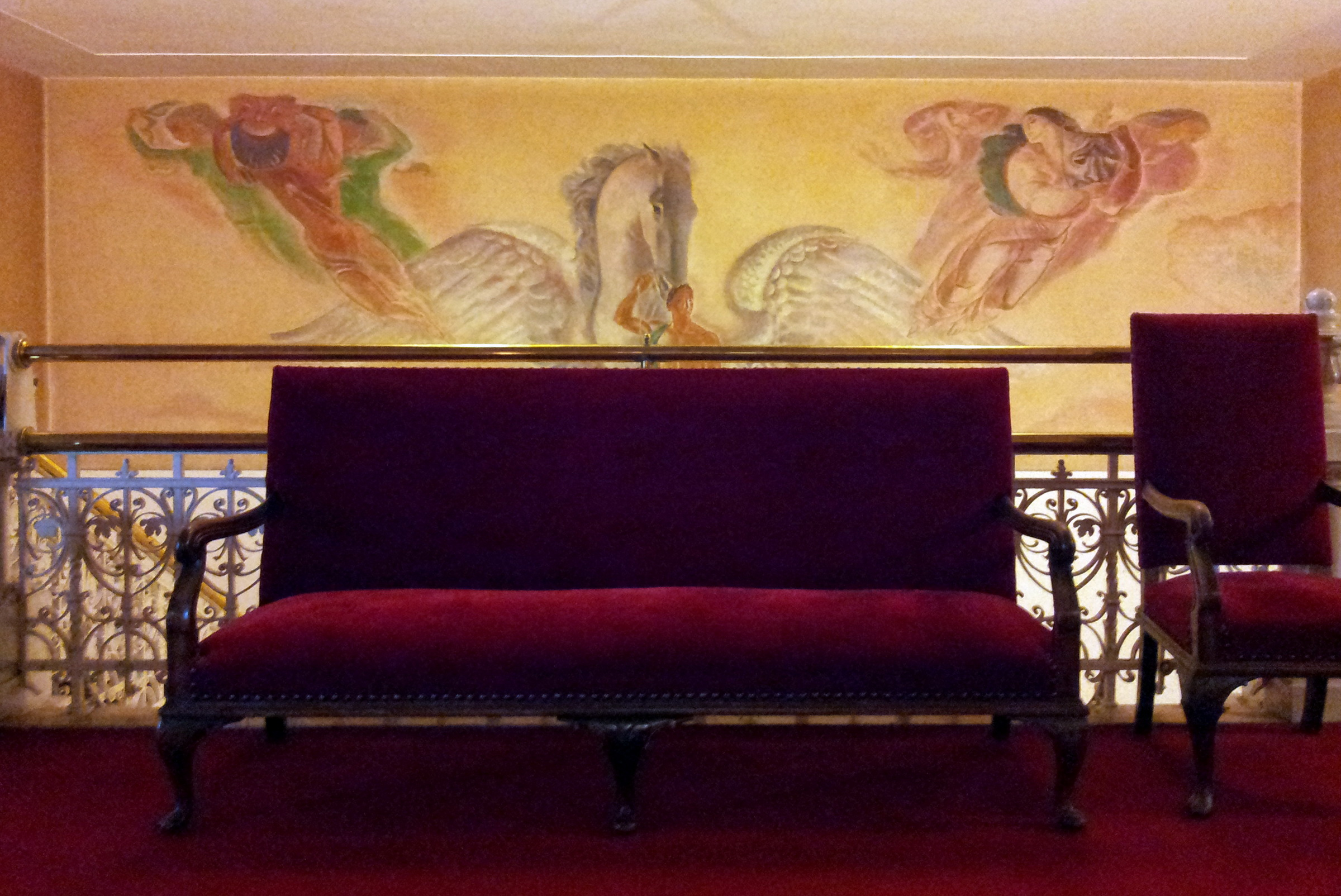 Amsterdam, the Netherlands. View of landing in the north wing of Stadsschouwburg, Amsterdam's municipal theatre. The mural is by Joop Sjollema (1945).